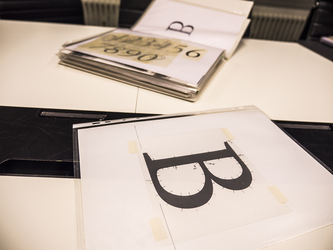 Exempel på typsnittet Nordling BQ. Bilden visar även bokstavens digitaliseringspunkter som används för att digitalisera typsnittet.